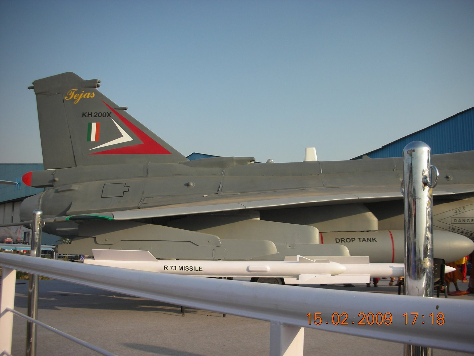 HAL Tejas carrying R-.73 missile and Drop Tank at AeroIndia air show.